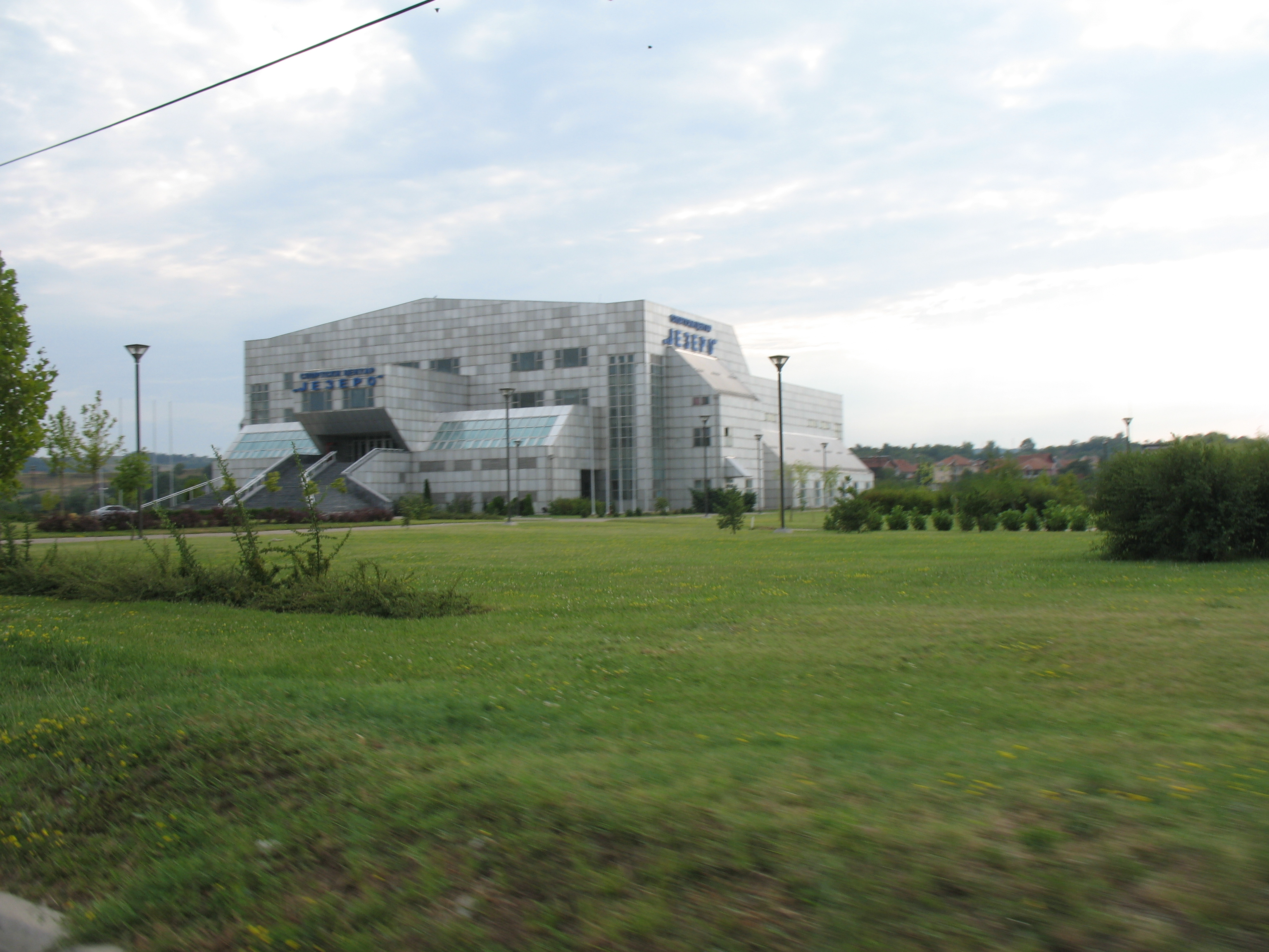 Sport center Jezero (Lake) in Kladovo, Serbia.